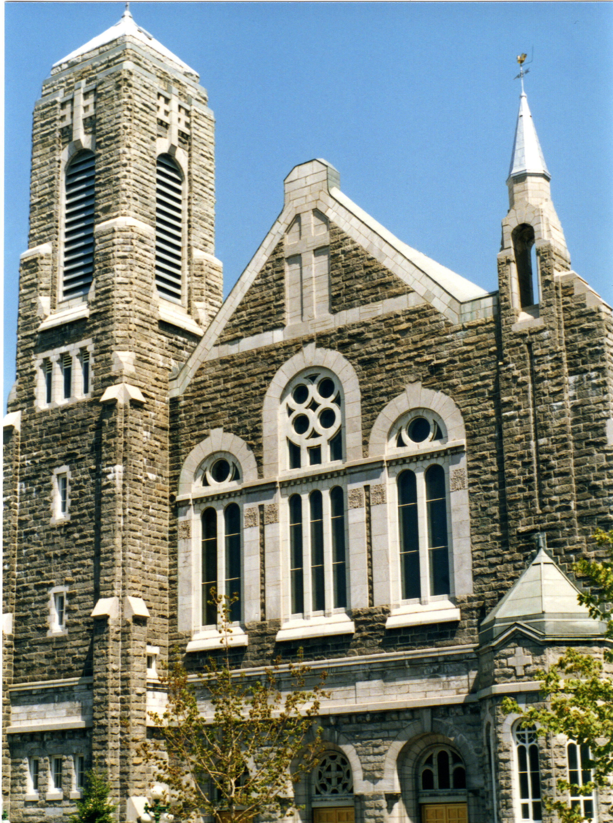 Notre-Dame-du-Chemin church in Quebec City, photographed in 1986. It was completed in 1931 and was demolished in 1999.